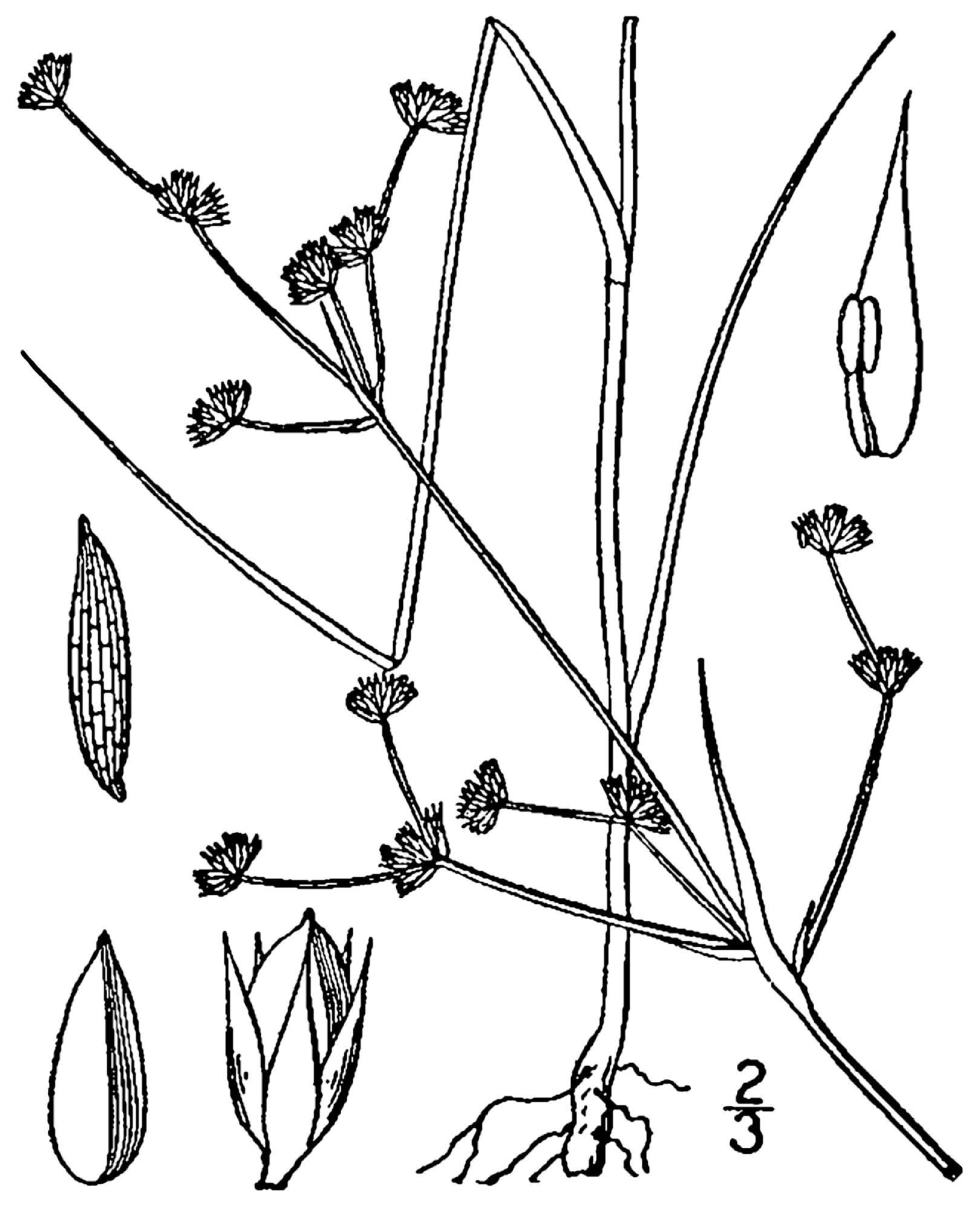 Juncus acuminatus Michx. - tapertip rush